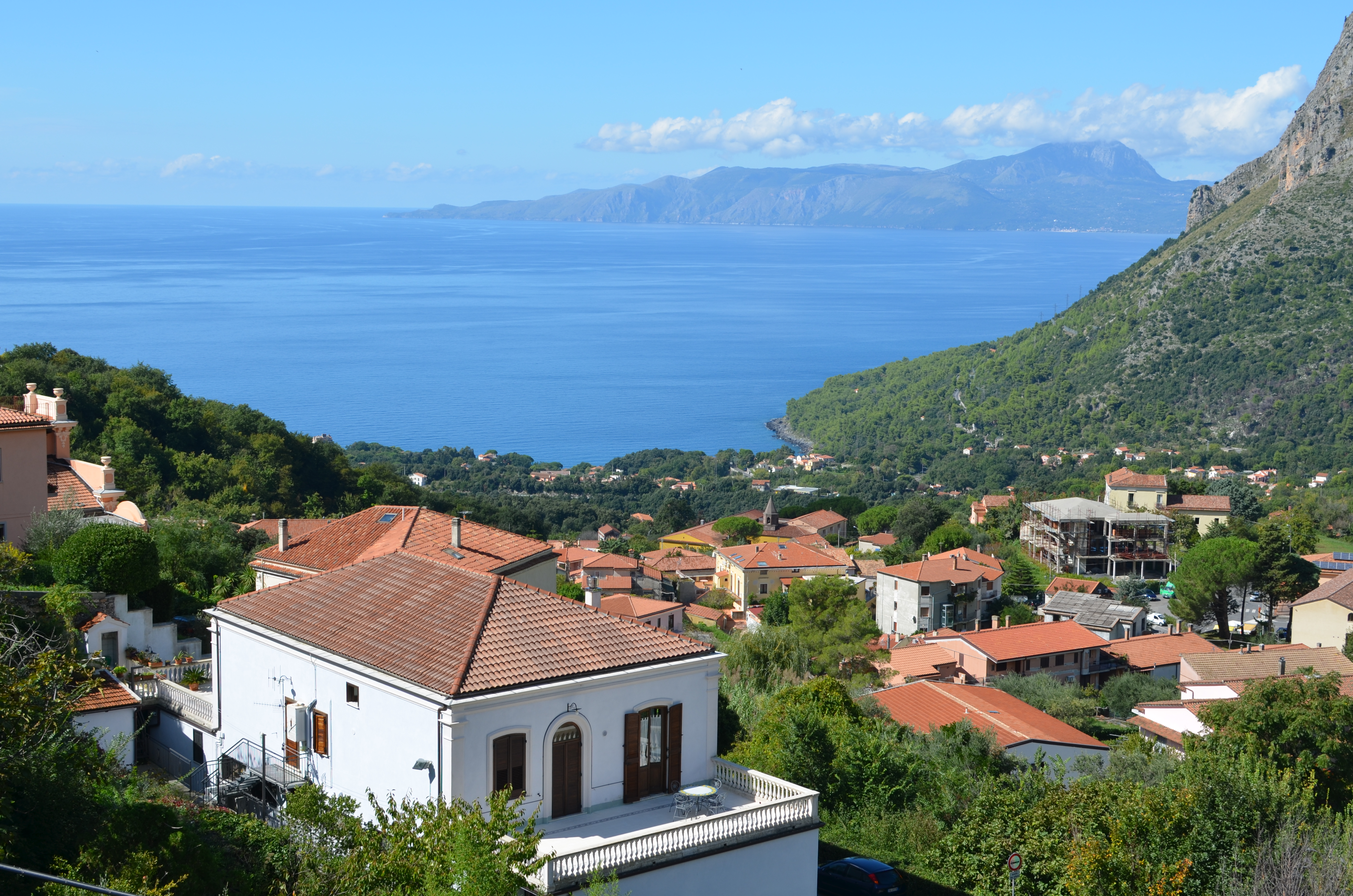 The Tyrrhenian coast as seen from Maratea. The railroad can be seen close to the coast.